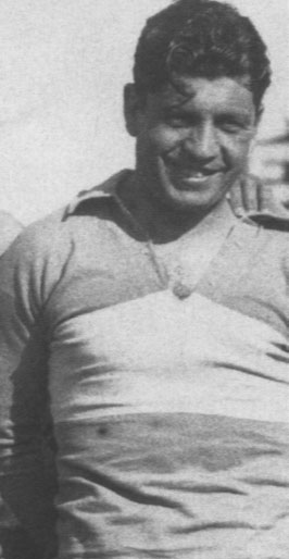 Ramon Muttis, Boca Juniors' deffensive back, in 1923.